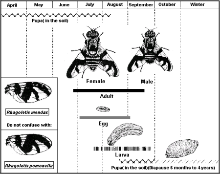 The life cycle (developmental times) of Tephritid fruit fly species Rhagoletis pomonella from egg to larva coinciding with the calendar months of the year